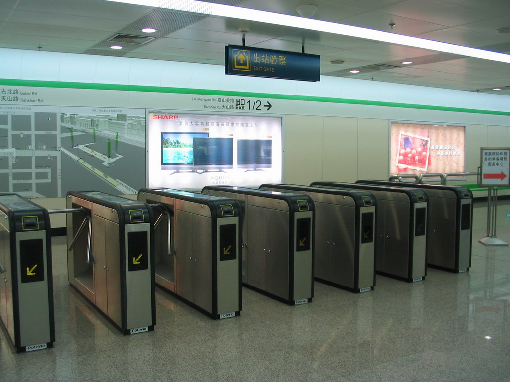 婁山關路站-2號線大堂 Line 2 Concourse of Loushanguan Road Station